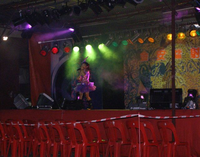 Live performings on Ghost Festival